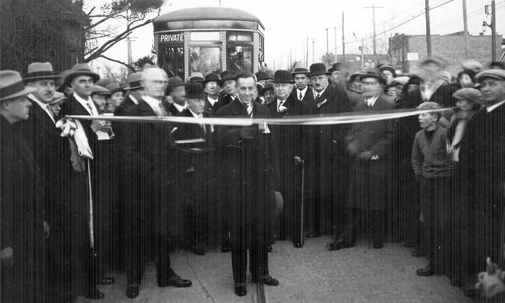 Official opening of the Streetcar on Lake Shore Road (now Boulevard) looking at 23rd Street, border of New Toronto